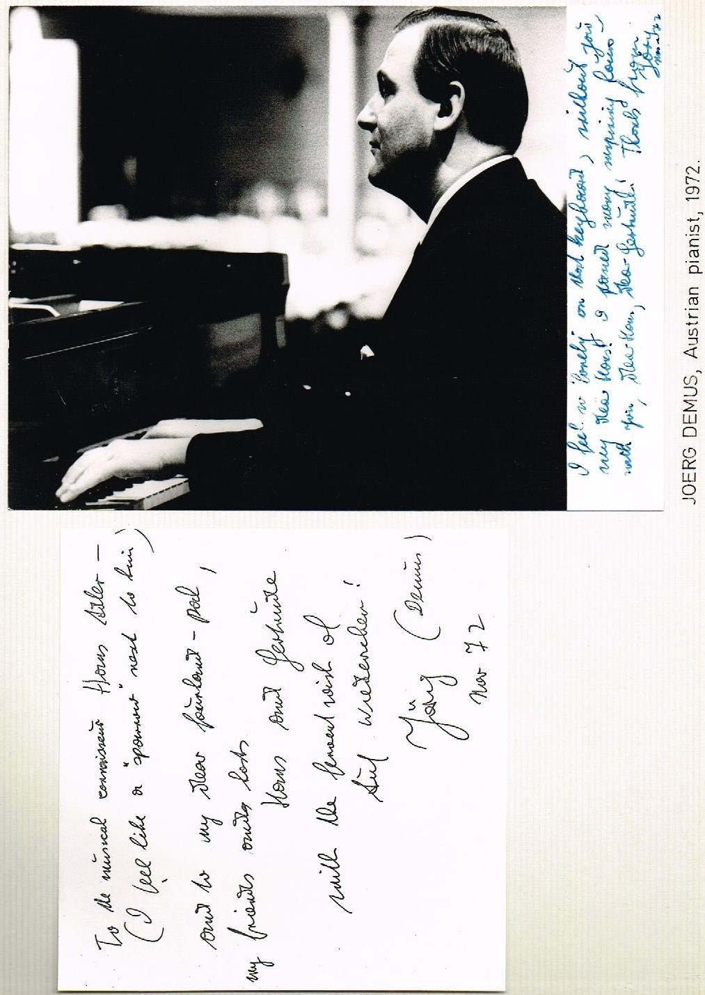 Photo dedicated by Jörg Demus to Hans Adler who arranged Southern Africa tour and invited him to do research in his music library